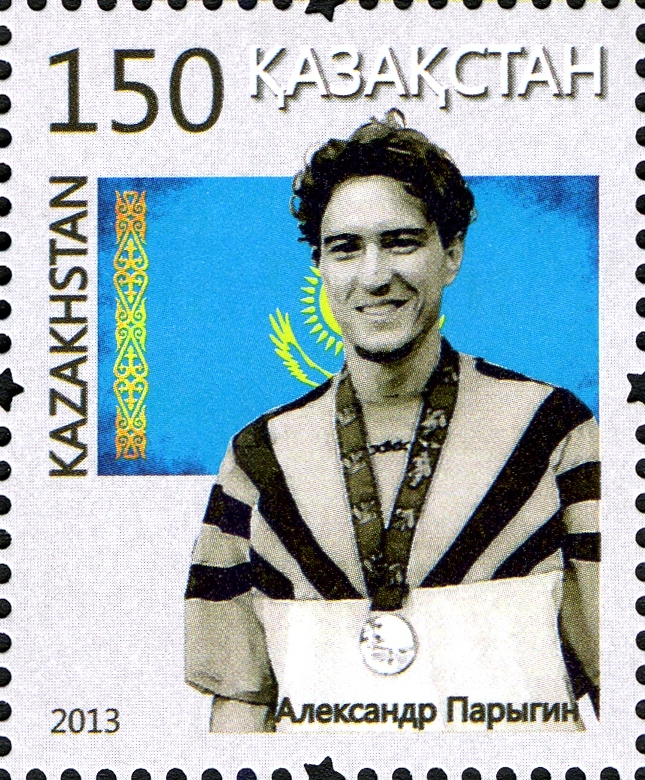 Stamps of Kazakhstan, 2013